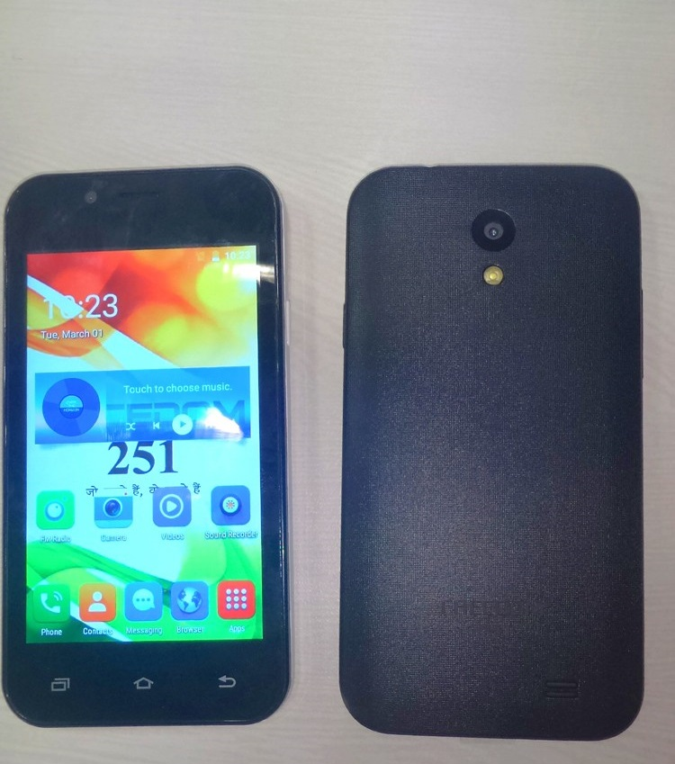 Copyright to The Photographer